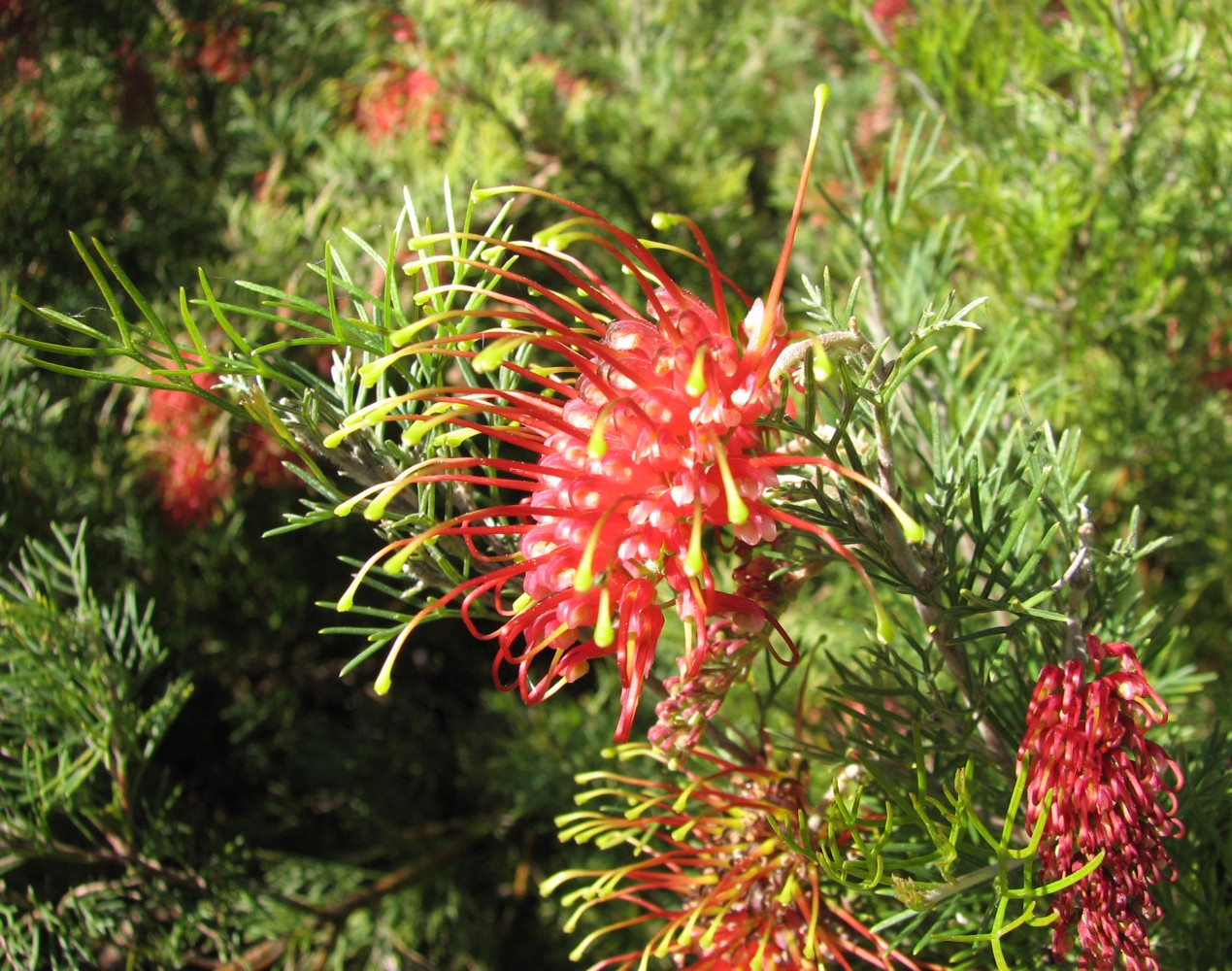 Grevillea thelemanniana (labelled), Geelong Botanic Gardens, Victoria, Australia